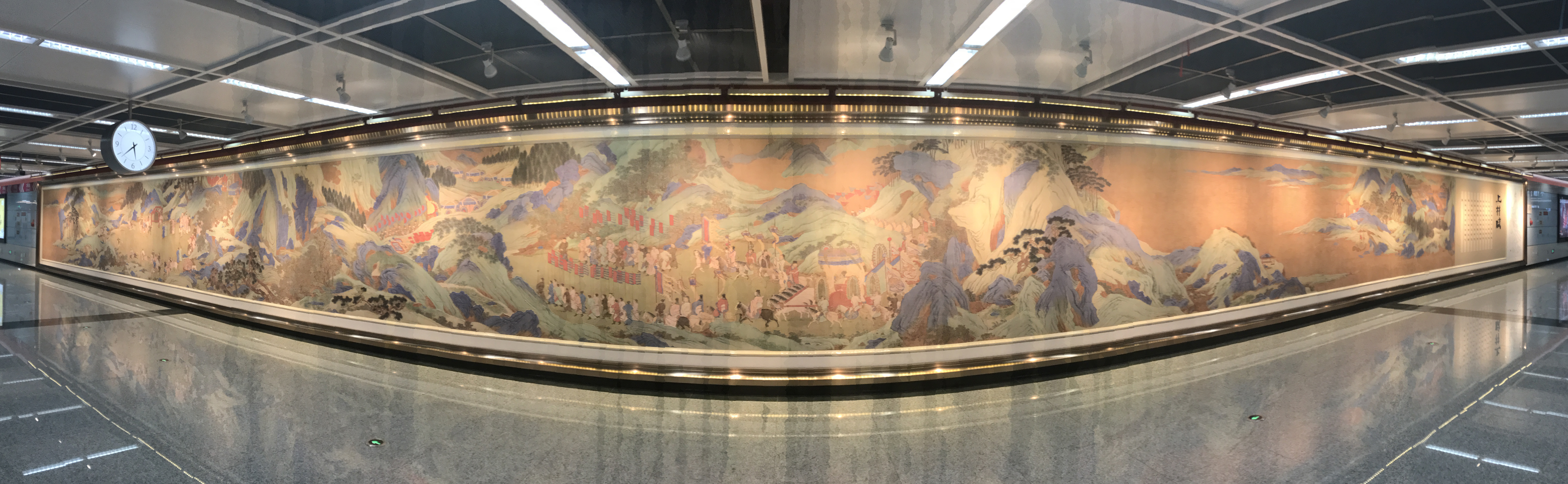 Artwall in Simaqiao Station, Chengdu Metro